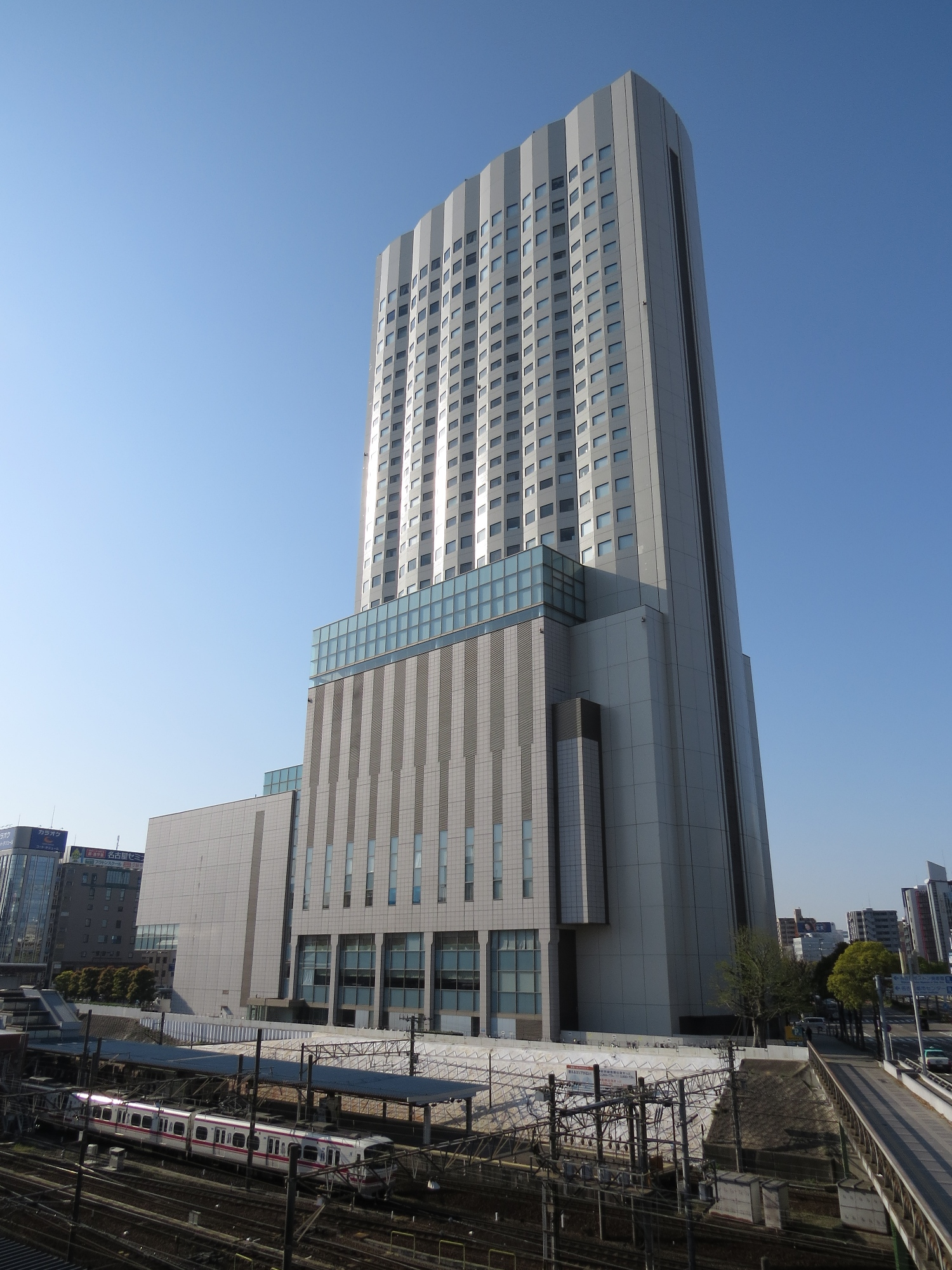 Kanayama Minami Building, in Naka-ku, Nagoya, Aichi, Japan.